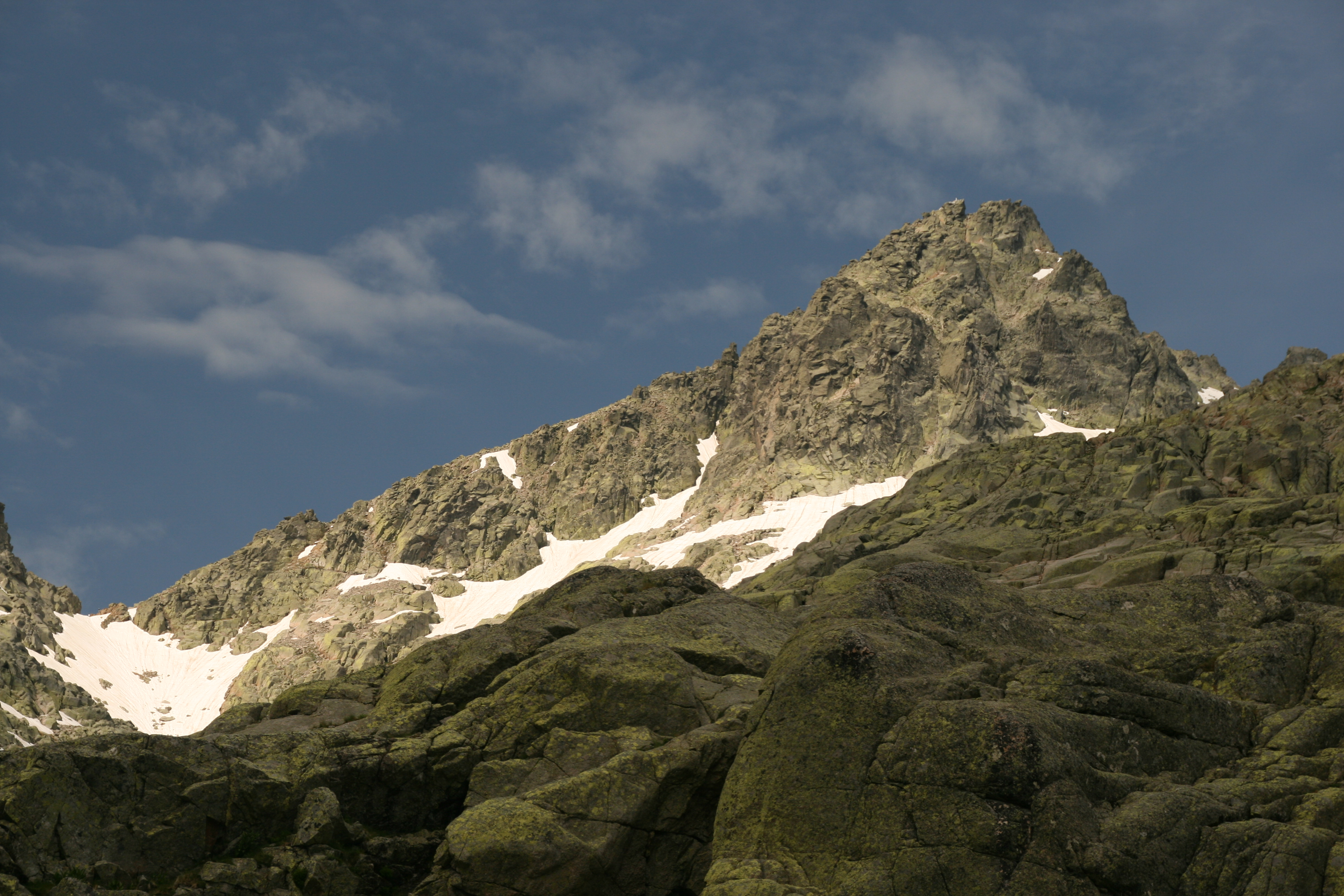 Almanzor Peak, Sierra de Gredos, Avila, Spain.